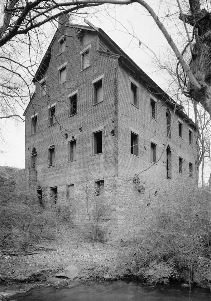 The Lenoir Cotton Mill, photographed in 1983. Town Creek, which once provided a power source for the mill, is at the bottom of the picture.